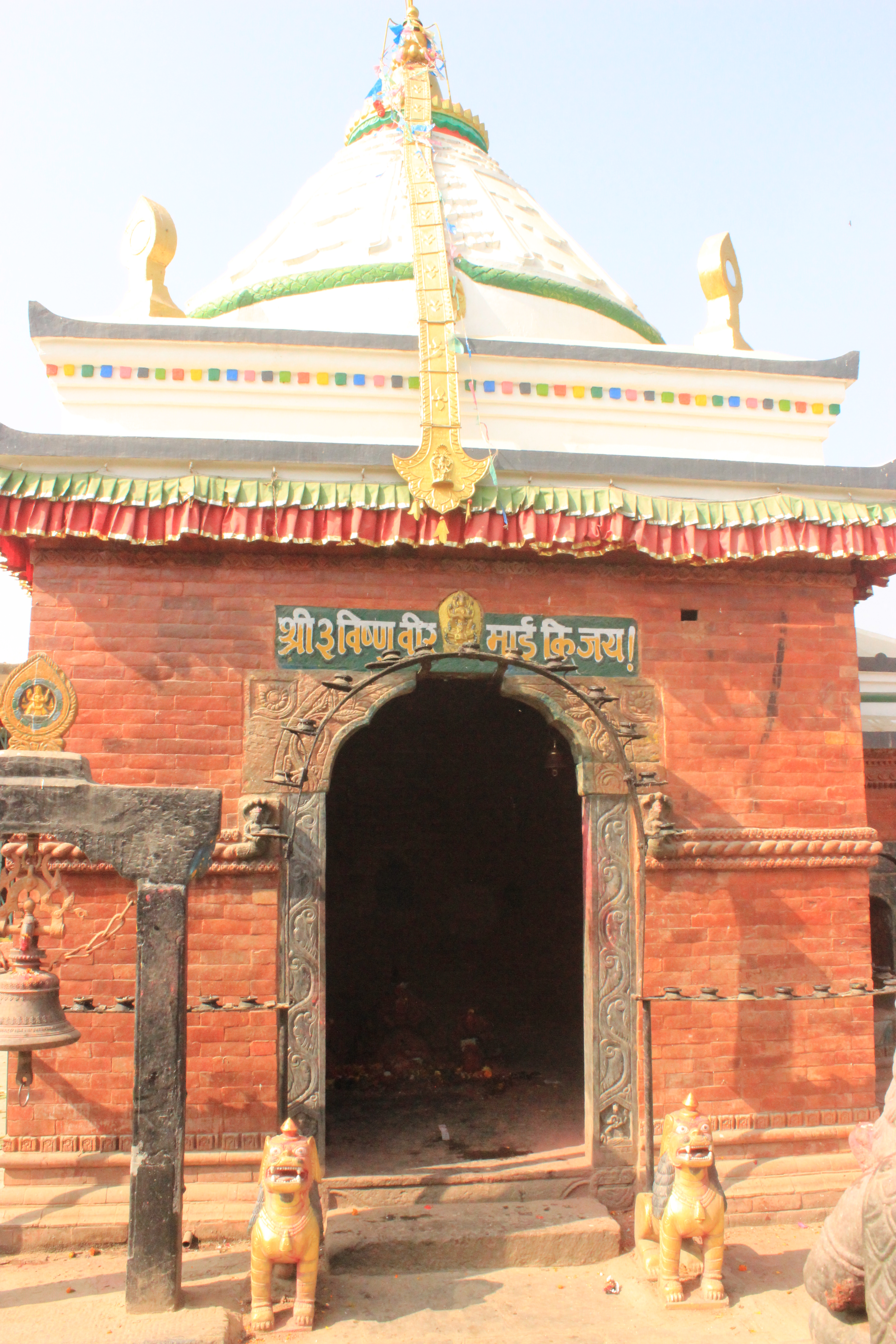 Temple is dedicated to Lord Shiva, Bishnu & Brahma.